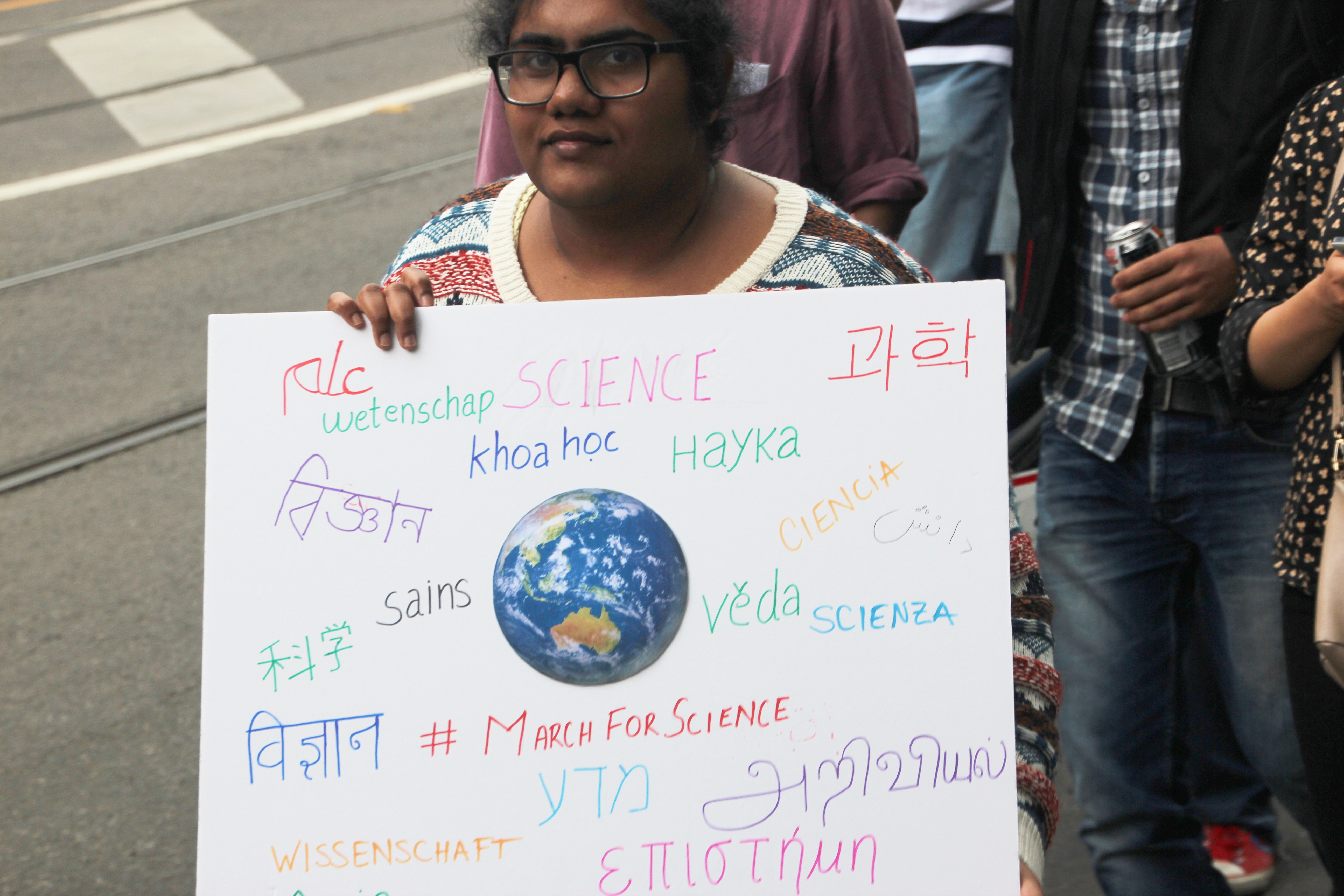 Thousands of Melburnians turned up and marched for science on April 22, #Earthday2017. Science matters to society. The march is based upon 4 major goals: science literacy, open communication, informed public policy, and stable investment in science and research. Many of those present raised the importance of climate science in signs and in the speeches given.